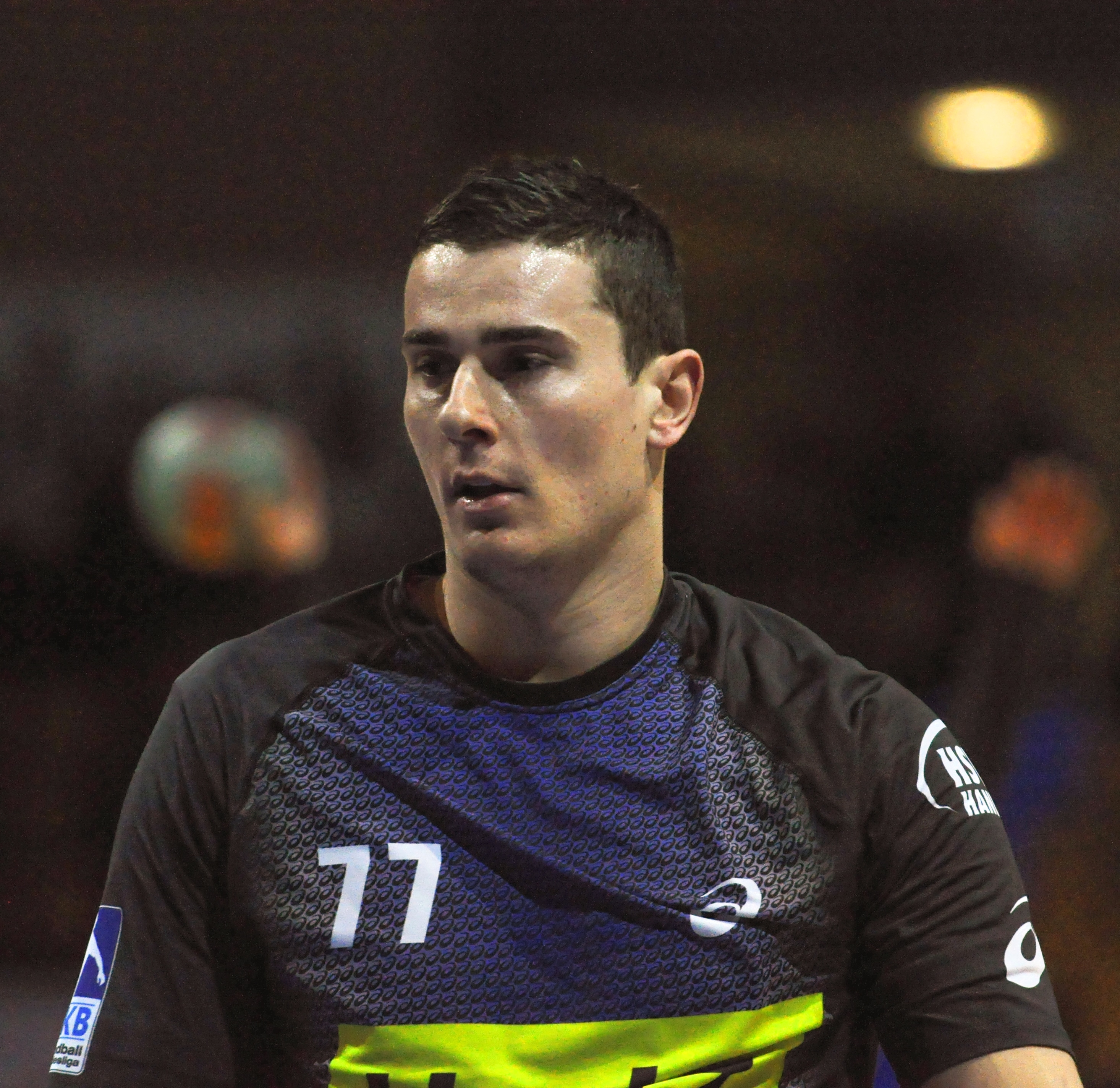 taken on February 8, 2014 during DKB Handball-Bundesliga match between HSG Wetzlar and HSV Hamburg